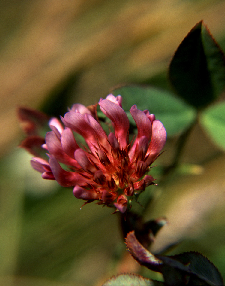 Trifolium variegatum at Humboldt Bay National Wildlife Refuge Complex, California, USA